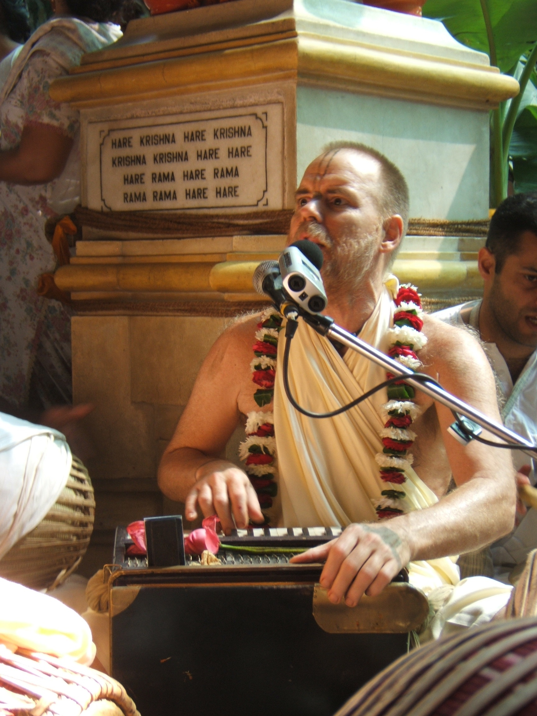 Aindra Dasa leading a kirtan at Krishna Balaram Mandir in Vrindavan.